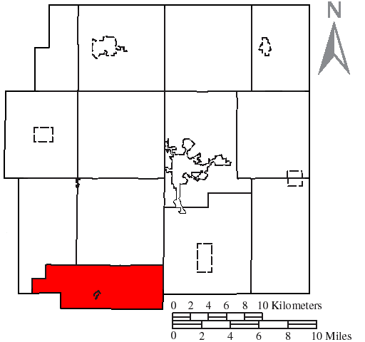 Made by the US Census and modified by myself